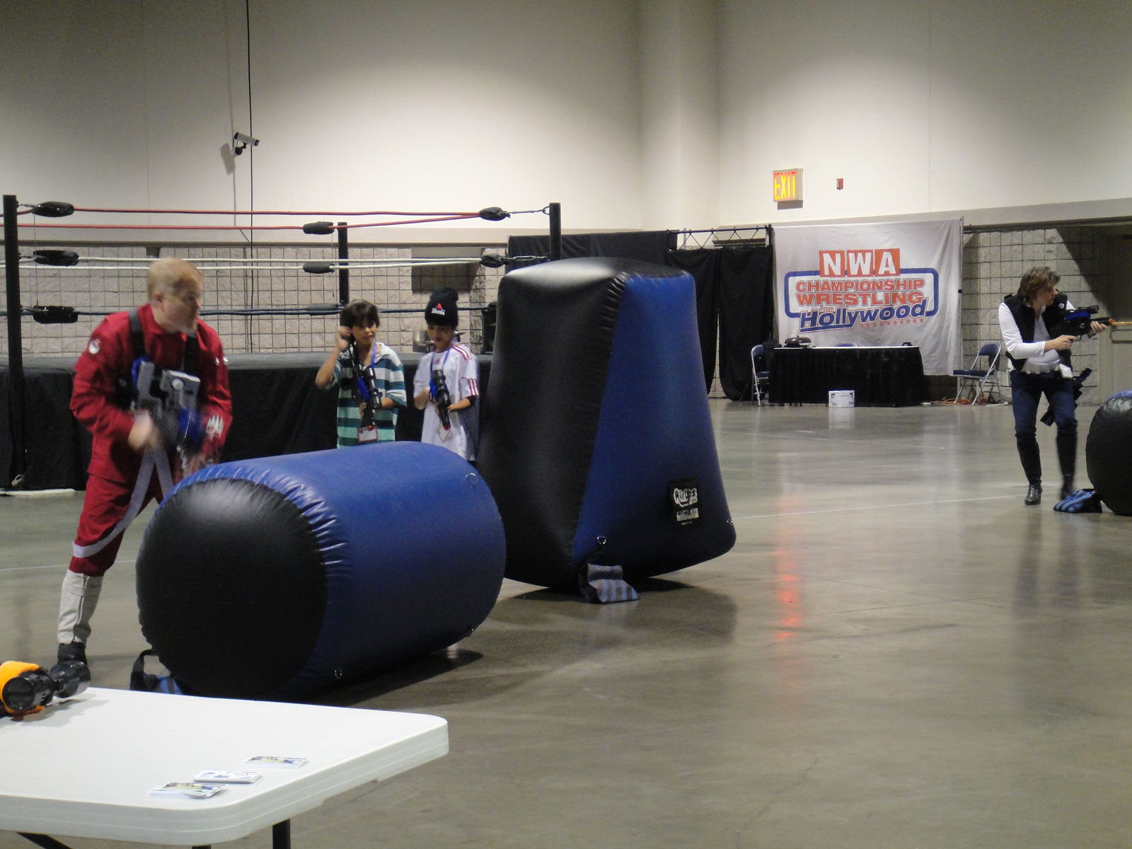 photo 2011 Pop Culture Geek taken by Doug Kline If you're interested in higher resolution versions of my images, contact me via my profile page.